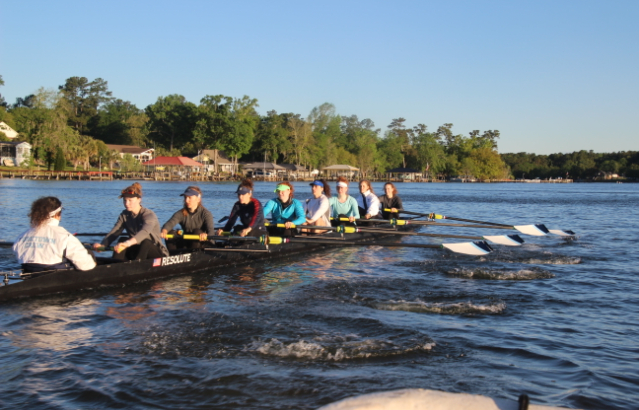 This is the Women’s Varsity Eight from the Yorktown Crew team at Yorktown High School in Arlington, Virginia during the 2019. This was taken at Camp Robert Cooper in Summerton, South Carolina.